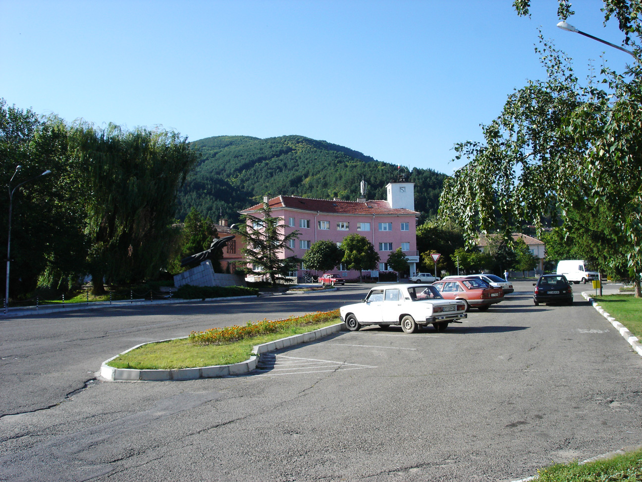 town square and town hall of Tvardica, Bulgaria, taken in August 2006